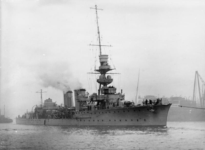 Royal Navy C-class light cruiser HMS Centaur